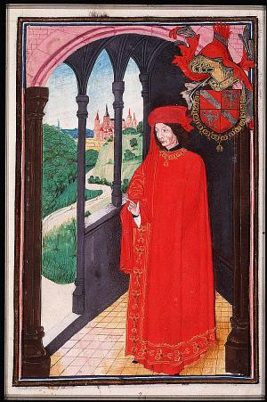 Statuts, Ordonnances et Armorial de l'Ordre de la Toison d'Or (Statutes, Ordonnances and armorial of the Order of the Golden Fleece) Place of origin, date: Southern Netherlands; 1473. Added sections: Southern Netherlands; 1478 or shortly after and 1491 or shortly after Material: Vellum, ff. 86, 249x187 (167x106) mm, 23 lines, littera cursiva (lettre bourguignonne). French. Binding: 18th-century brown leather Decoration: 1 full-page miniature (170x115 mm) with border decoration; 92 miniatures (185/155x120/100 mm); 1 historiated initial (80x90 mm) with border decoration; decorated initials with border decoration (ff., Added section: miniatures ; 4 drawings for miniatures (not finished) Provenance: Presented in 1473 by Gilles Gobet, King of Arms of the Order of the Golden Fleece, to Charles the Bold, Duke of Burgundy and the other Knights during the Chapter of the Order held at Valenciennes; Treasure of the Golden Fleece, Brussls; taken away by the Treasurer C.-F. Humyn (d. 1735) or his daughter C.Ch. de Corte; by legacy to her daughter M.-L. de Corte, wife of Ph.-E. de Poederlé; purchased in 1781 at the Poederlé sale by G.-J- Gérard of Brussels; acquired in 1832 as part of the Gérard collection (no. A 27)